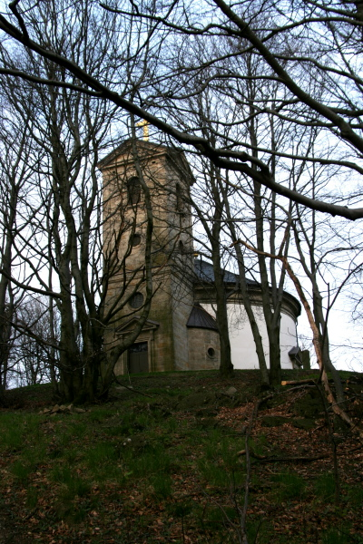 The contemporary church of pilgrimage at the Armesberg (Mount Armes) in the Upper Palatinate.